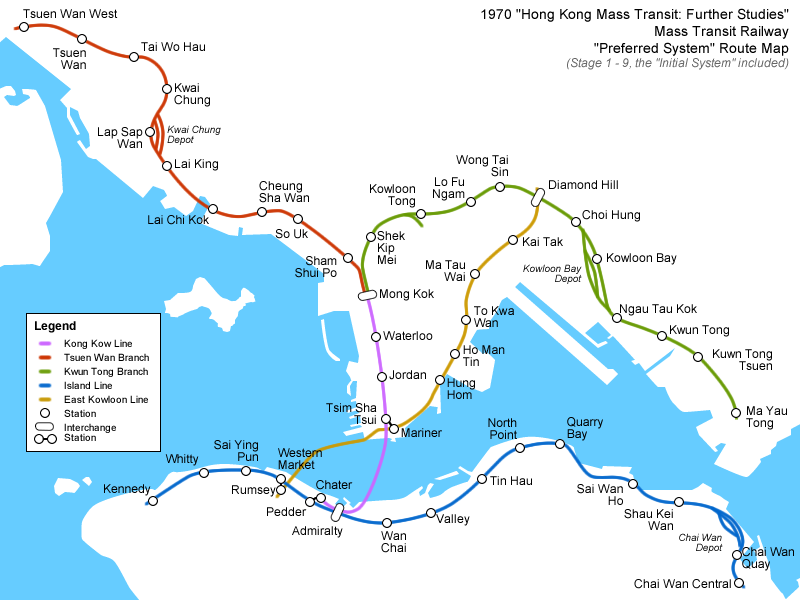 1970 "Hong Kong Mass Transit: Further Studies", Mass Transit Railway "Preferred System" Route Map